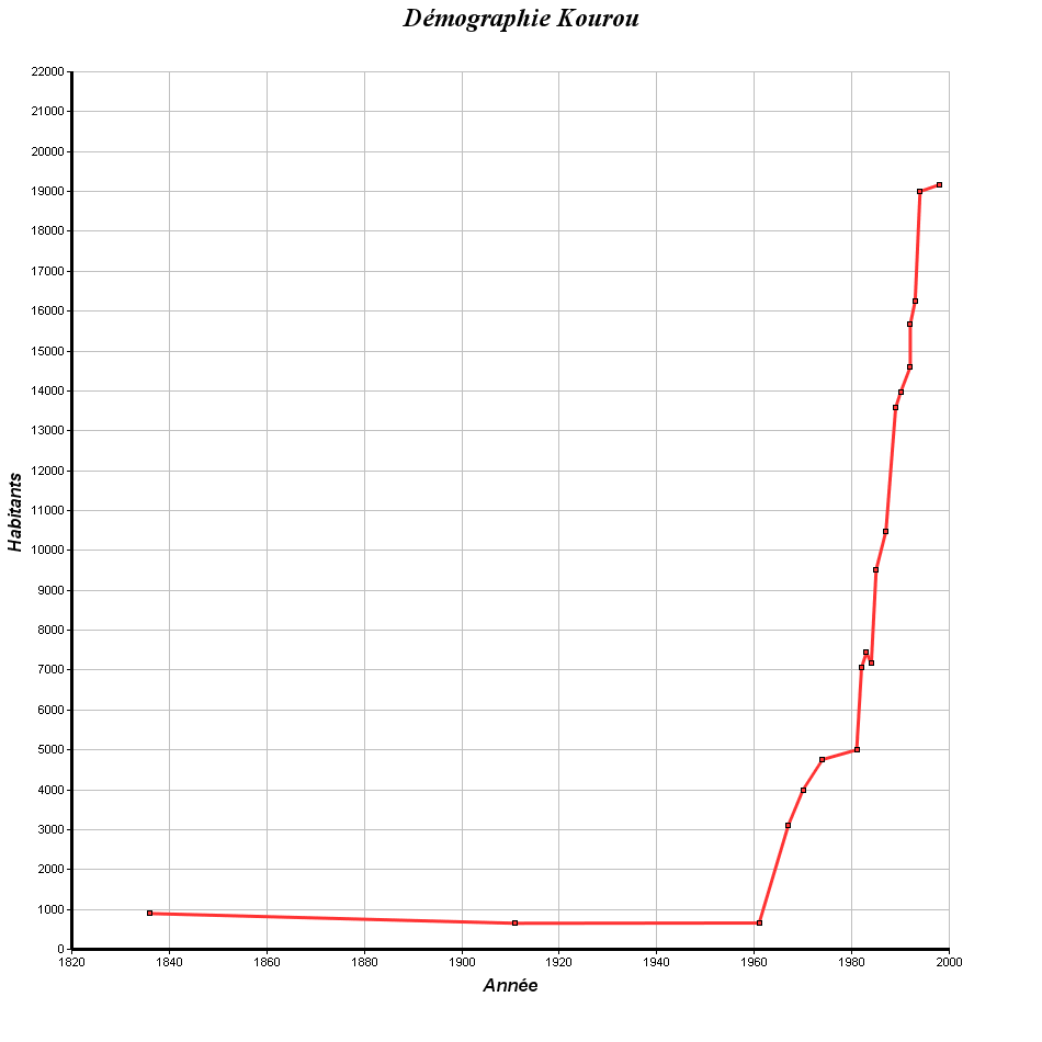 Graph showing the population of Kourou, French Guiana from 1836 to 1999.